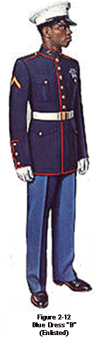 Enlisted Marine blue dress uniform